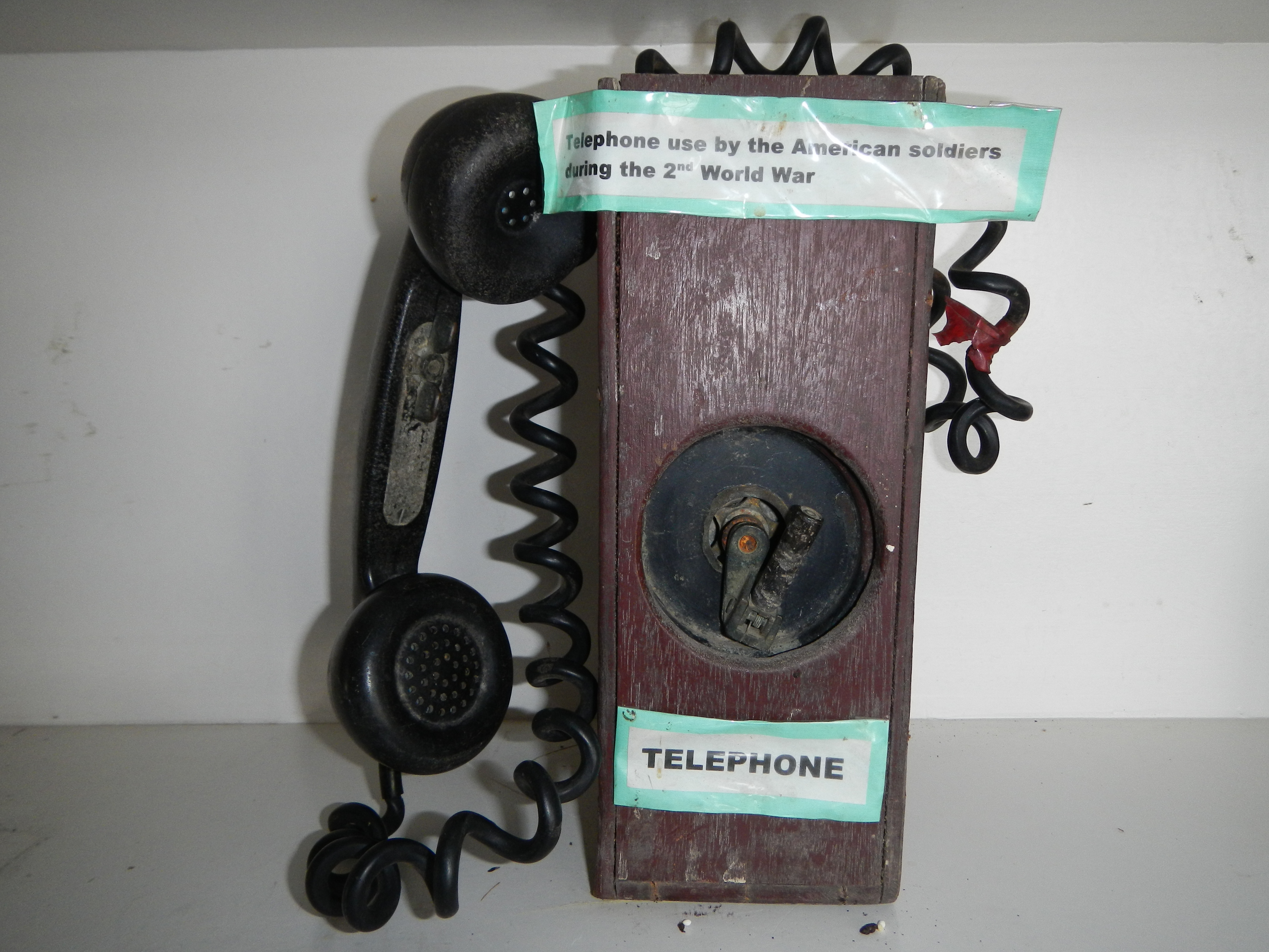 Minalin, Pampanga[1] Museo Ampon Simpanan Kabiasnan Ning Minalin (Museum and Library of Minalin)